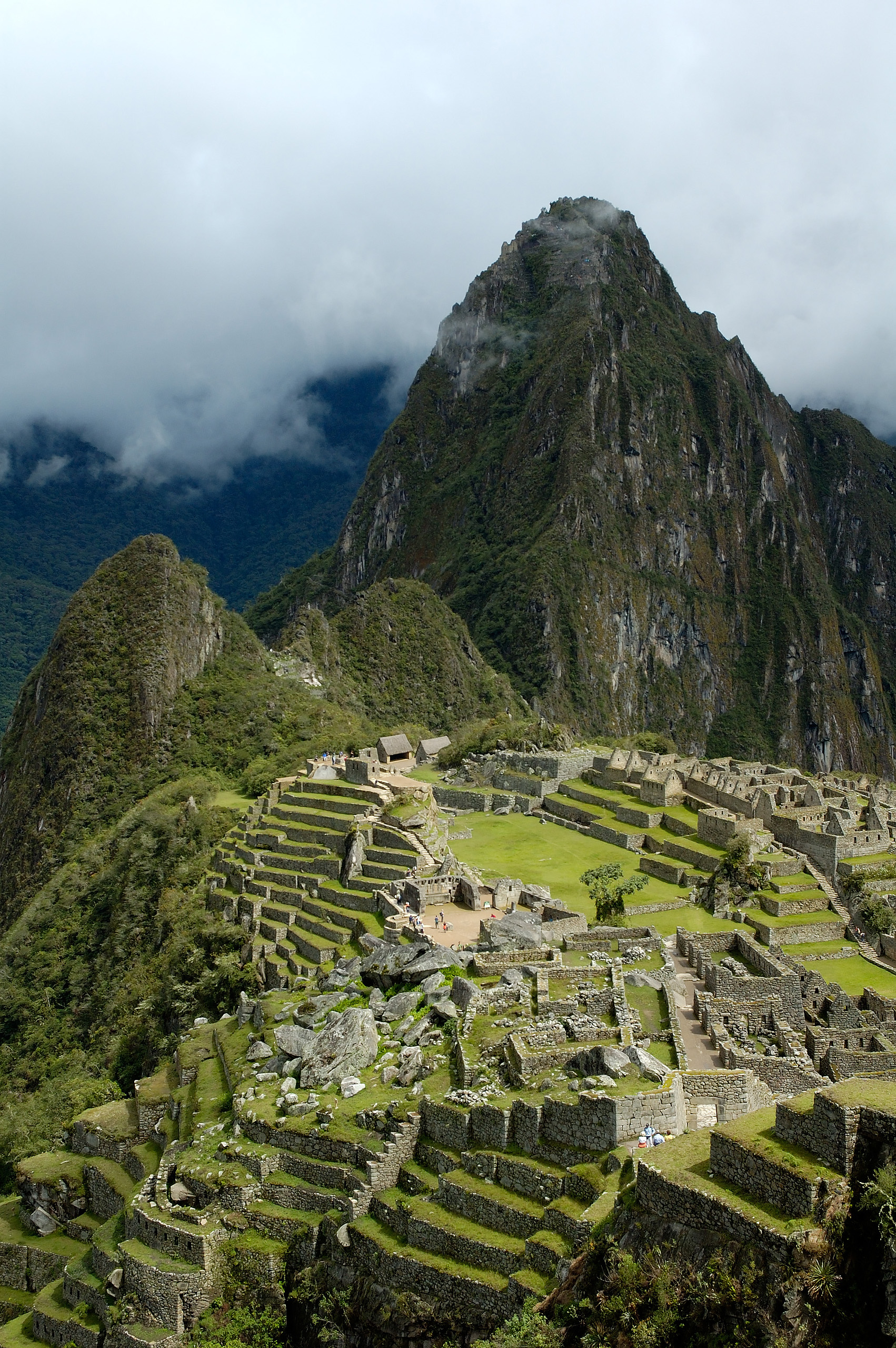 Classical view of the Machu Picchu (Peru) dominated by the "Huayna Picchu" in the background.